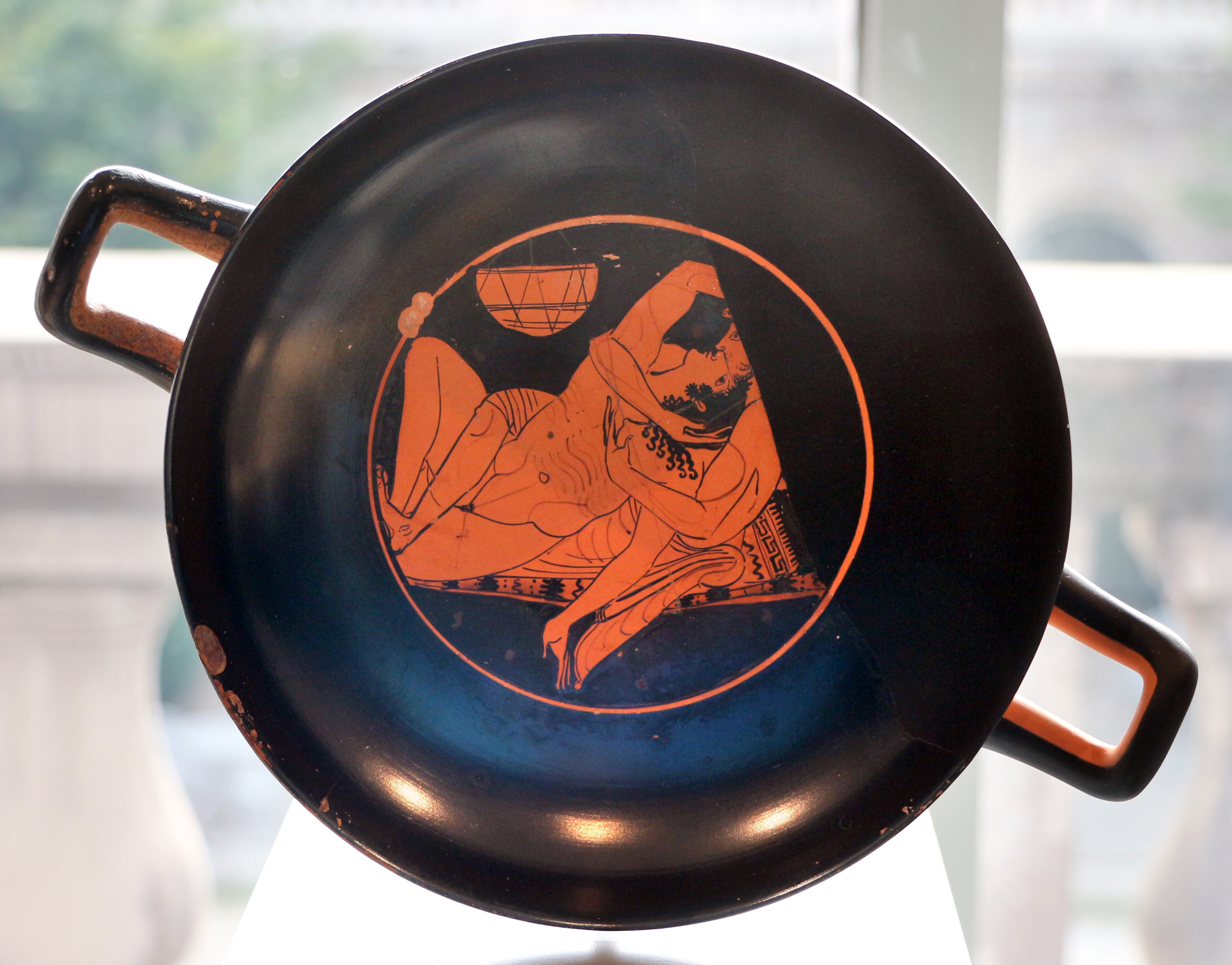 Ancient Greek pottery in the Art Institute of Chicago